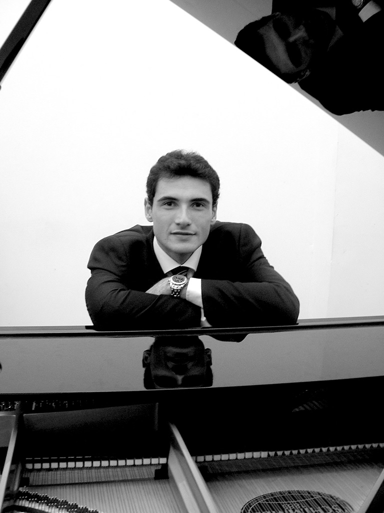 Lorenzo Porzio al pianoforte